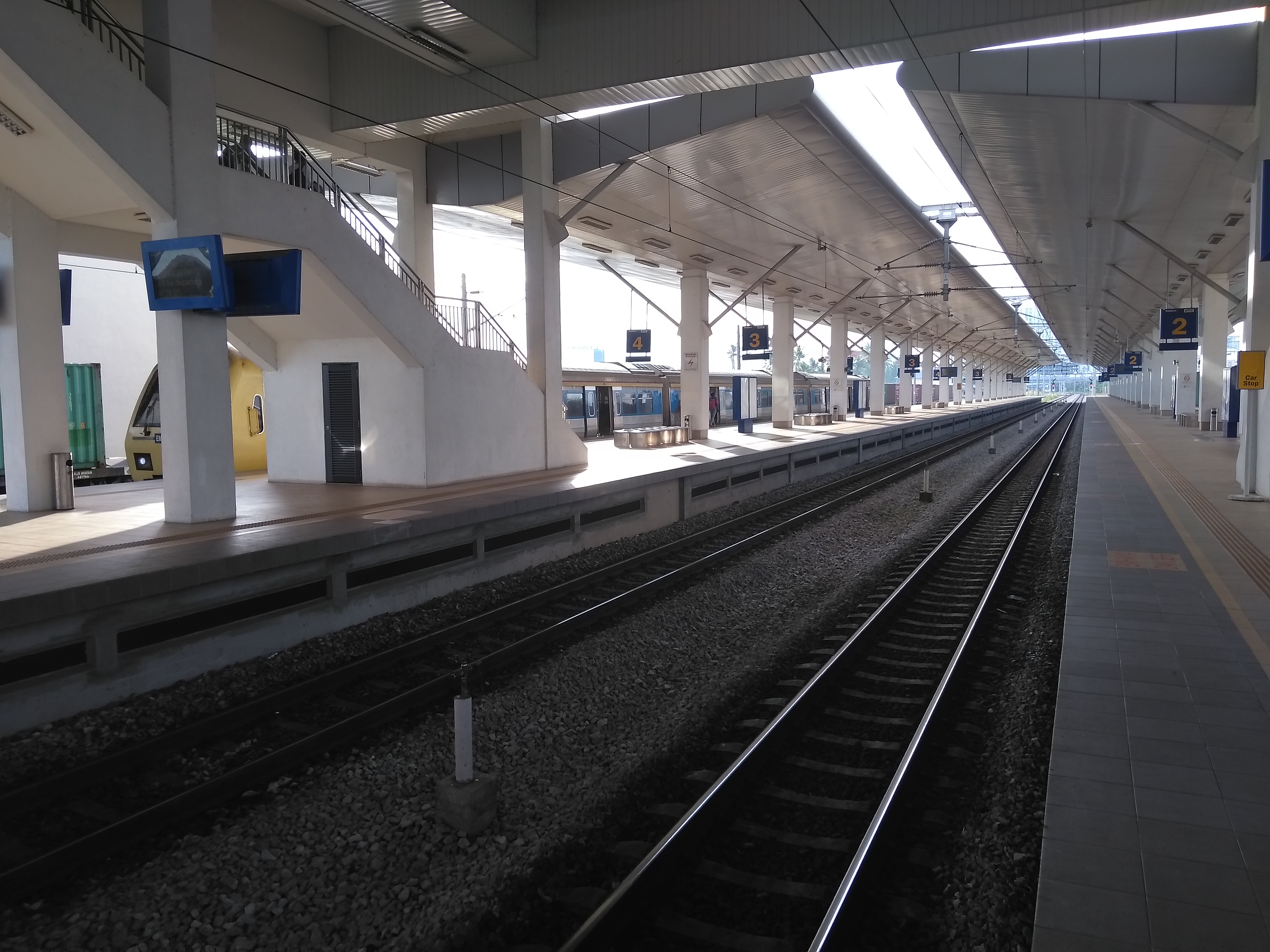 Bukit Mertajam Railway Station platform